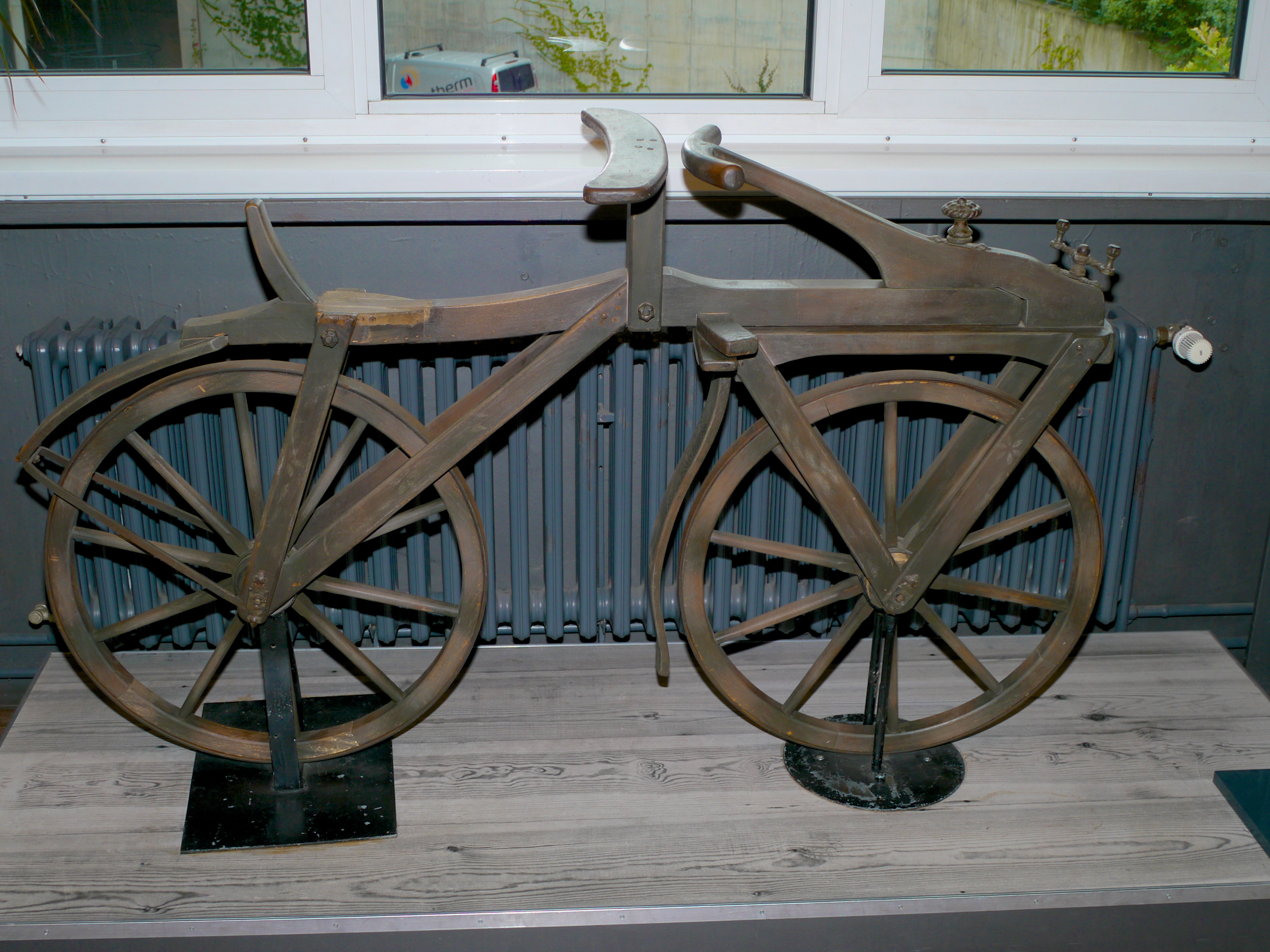 Dandy horse from Karl Friedrich Christian Ludwig Freiherr Drais von Sauerbronn, Technisches Museum Berlin, Germany